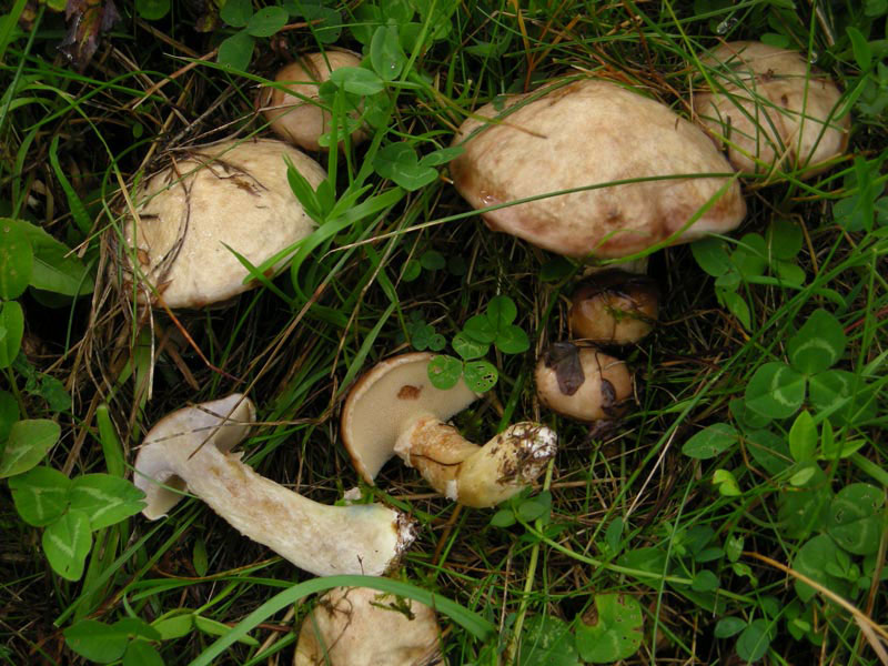 Fruit bodies of Suillus viscidus - Bellamonte (TN) - 08/2007